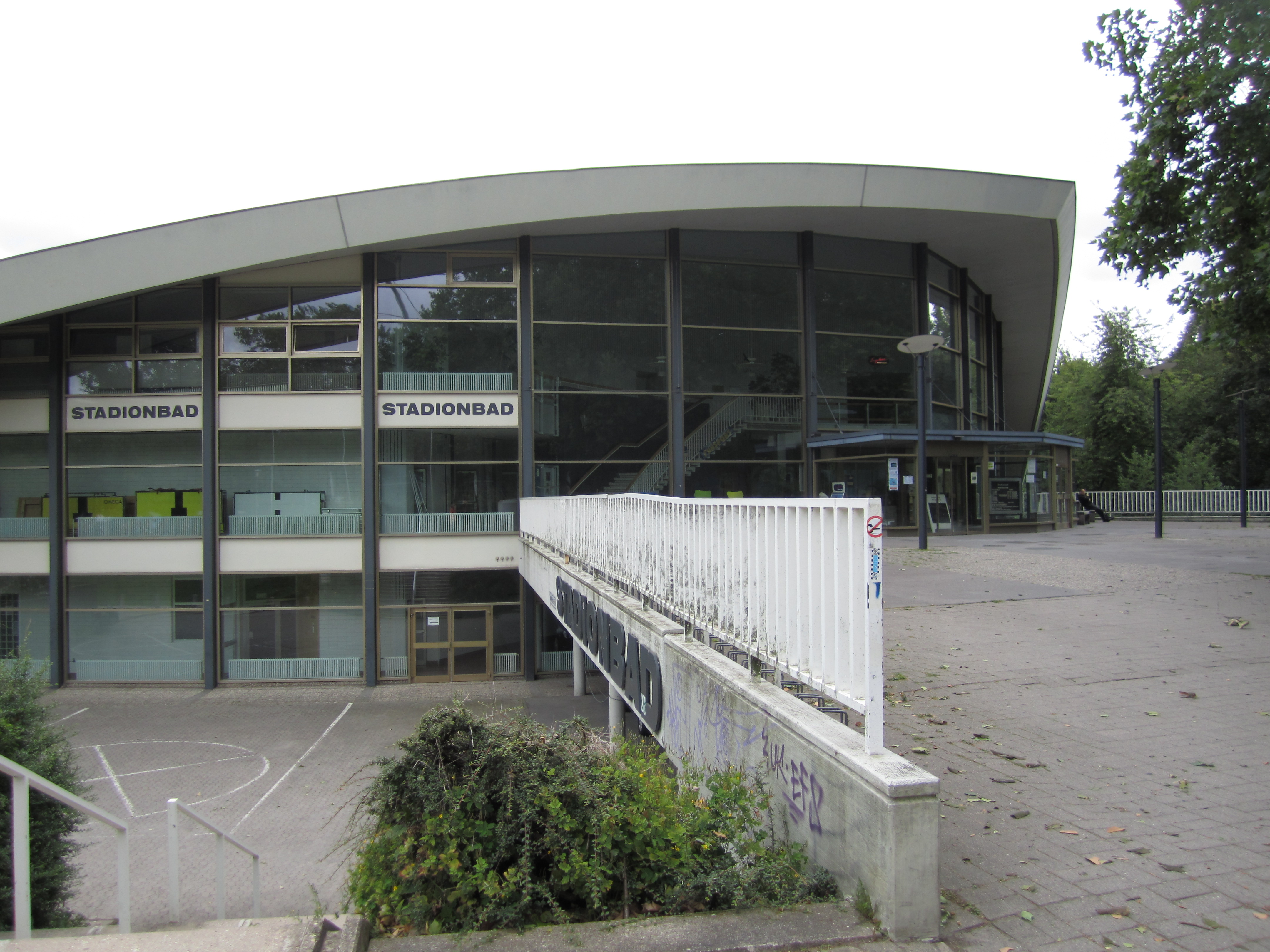 Stadionbad (public bath) in Hannover, Germany